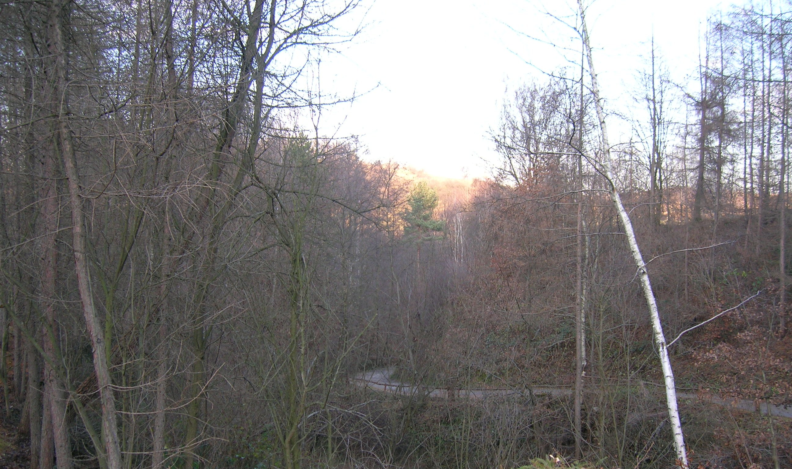 Dolina Nielepicka. Część górna